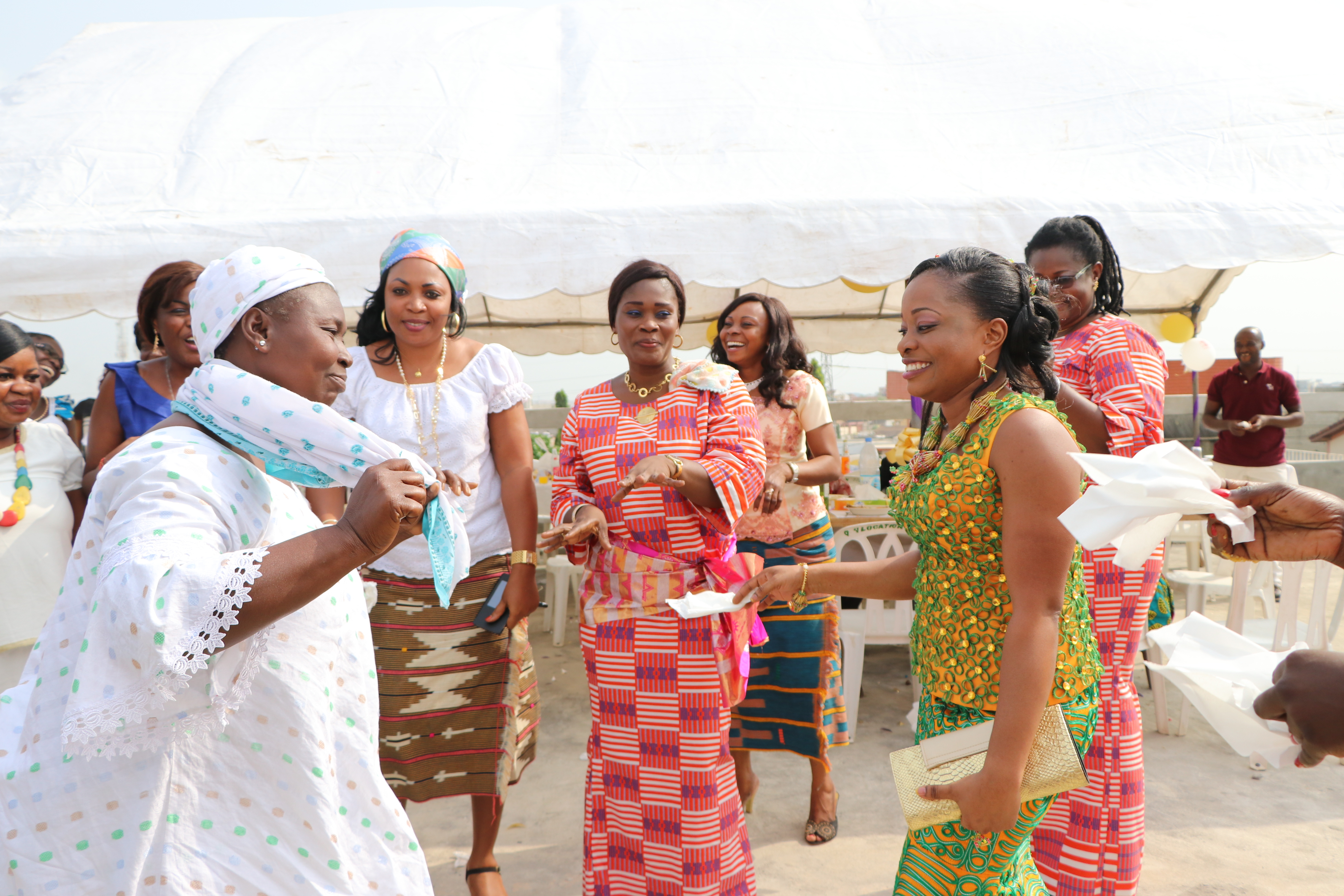 This is an image from Ivory Coast